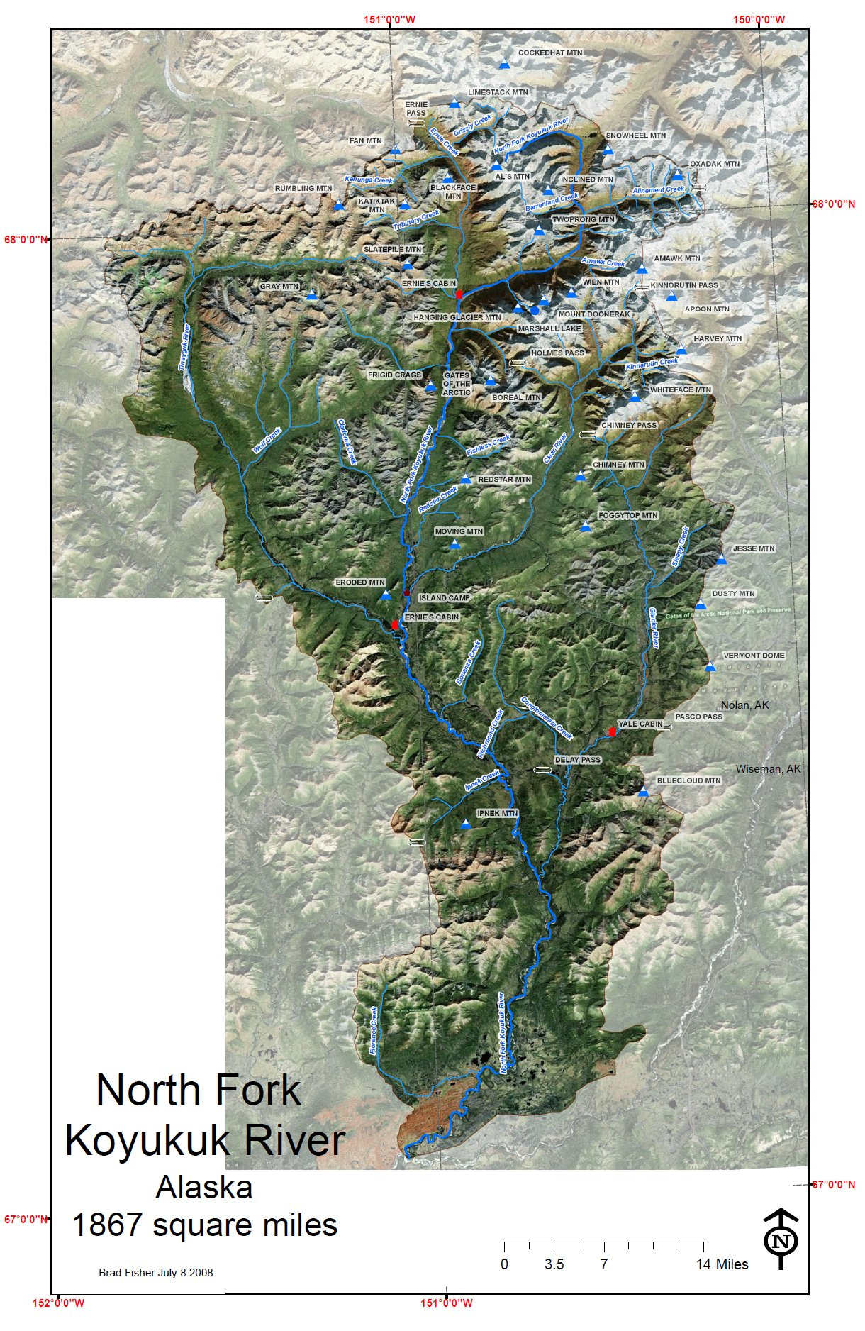 Watershed Map showing the North Fork of the Koyukuk River in Alaska.